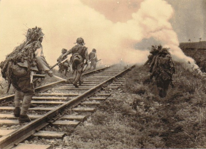 Japanese troops performing a close combat attack on Yüeh-Han Railroad. Basa Jawa: 廣東よりの北上軍に追いまくられて逃げ惑う敵を補足、煙幕を展張して粵漢鐵路上に白兵突撃を敢行するわが南下左翼部隊の精鋭。